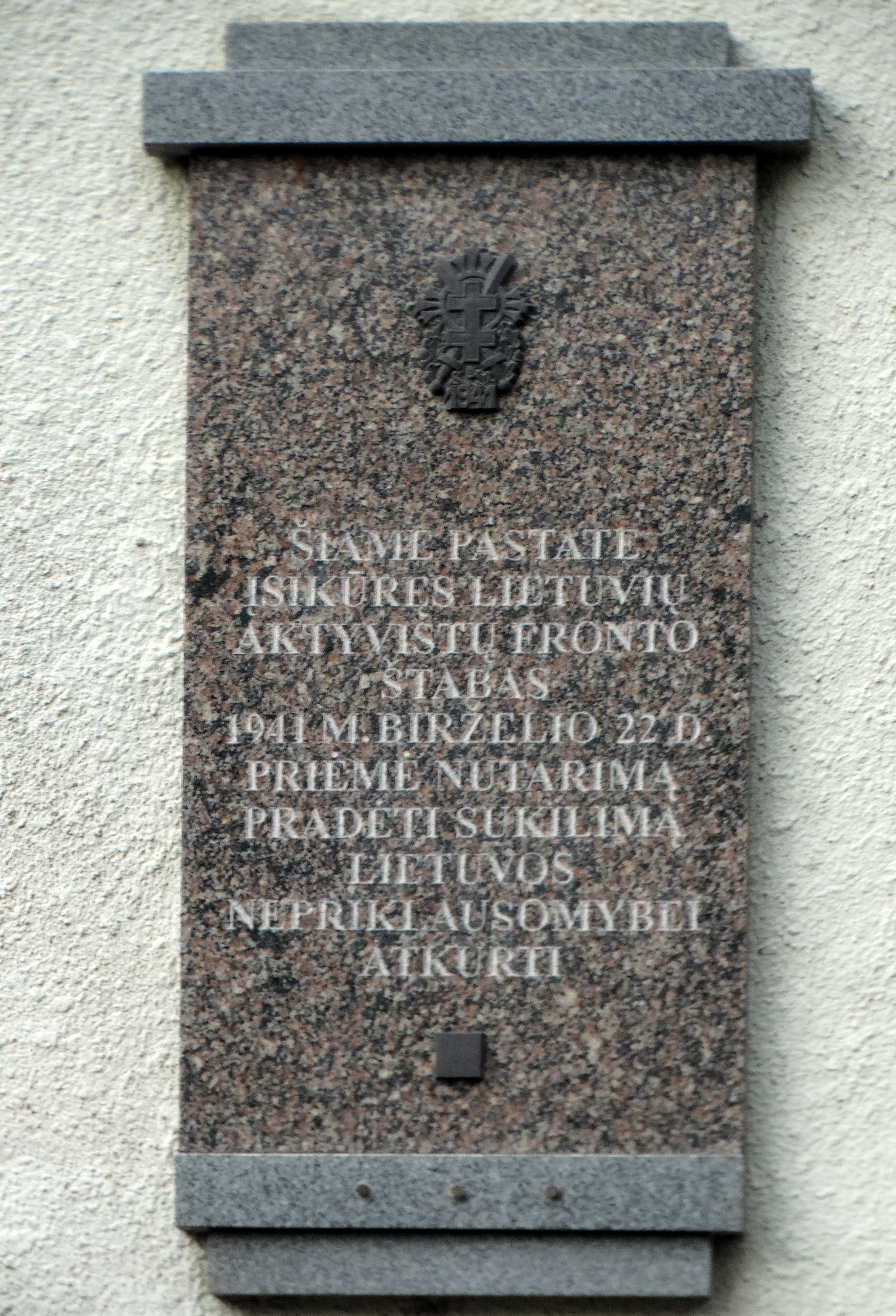 Memorial plaque to Activist Front, Kaunas, Lithuania